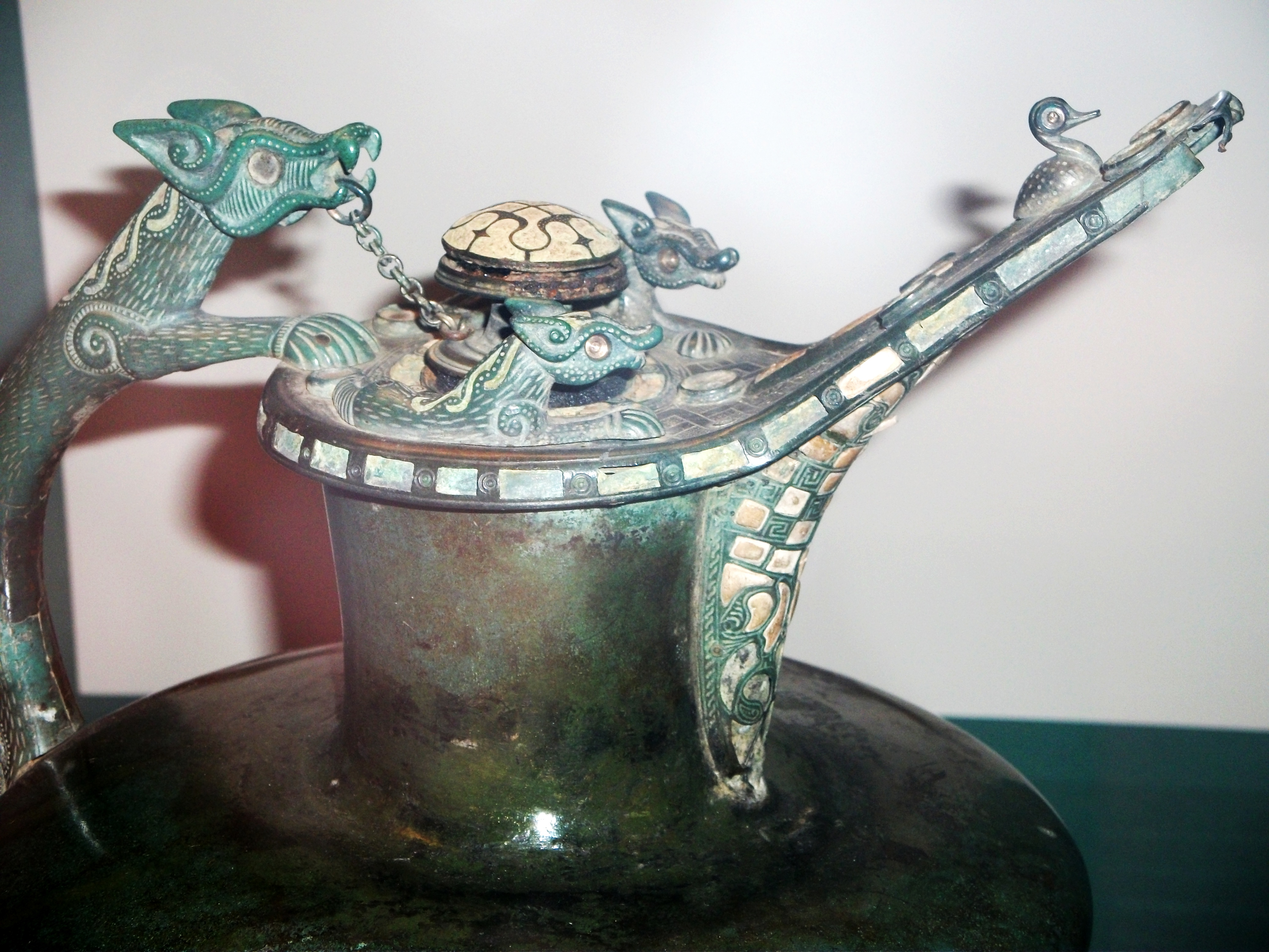 Top of one of the Basse Yutz flagons. La Tene style